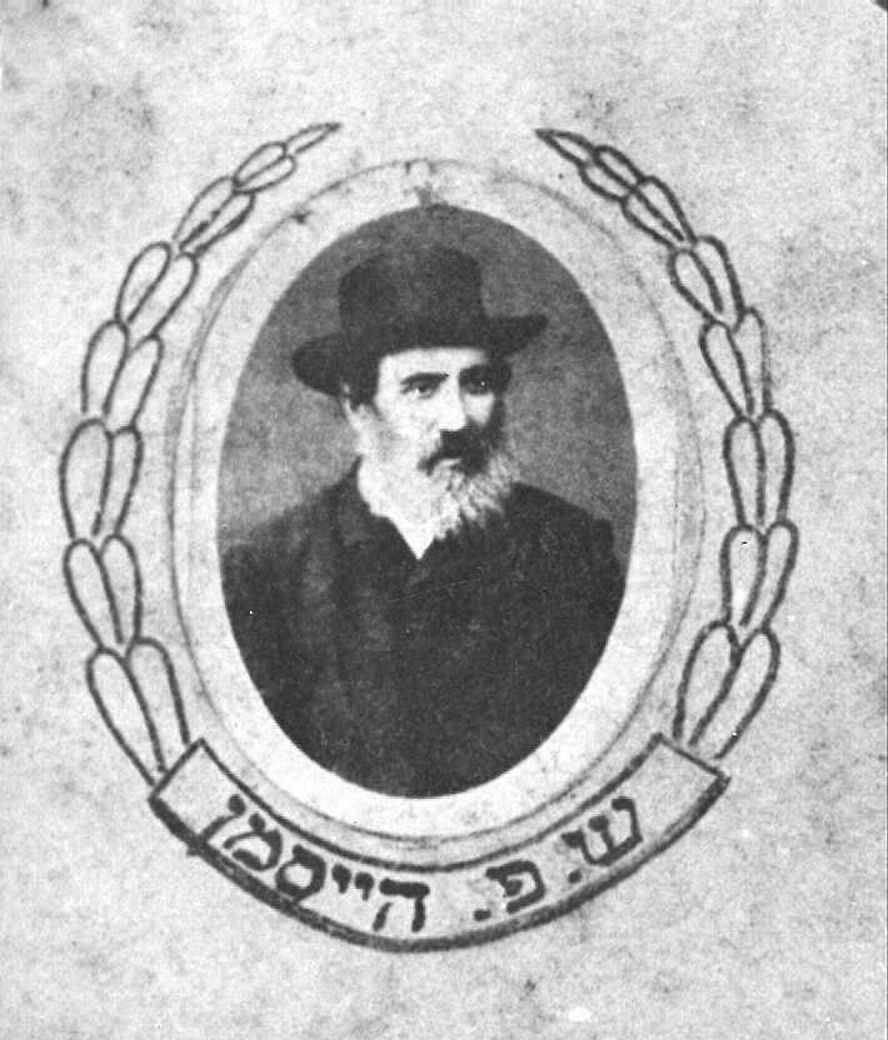 Shraga Feivel Heisman - A founder of Rishon LeZion. Poet Naphtali Herz Imber, lyricist of Israel's national anthem HaTikva, lived in Heisman's house.